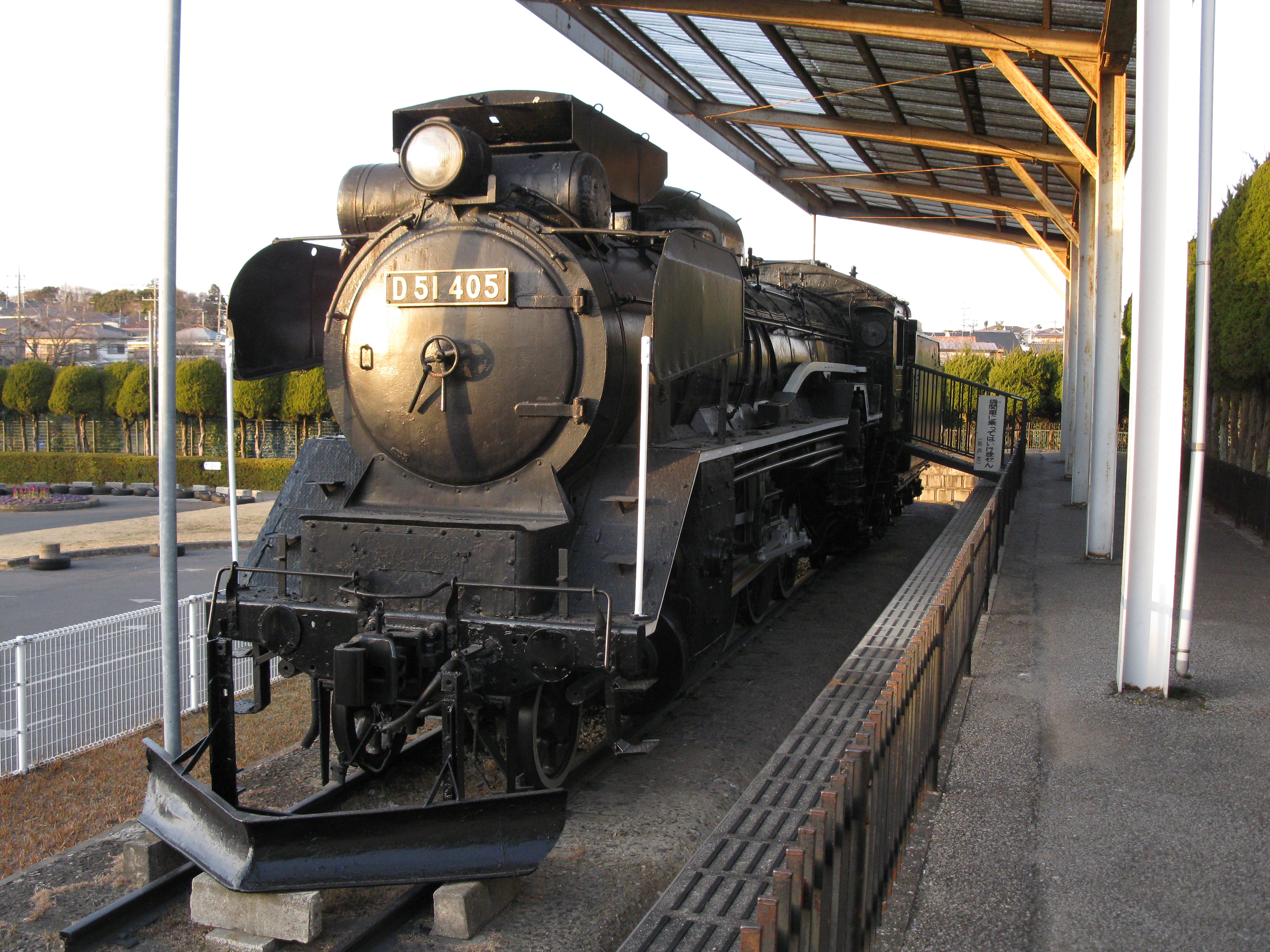 JNR Steam Locomotive Class D51 no.405 (Matsudo, Chiba, Japan))